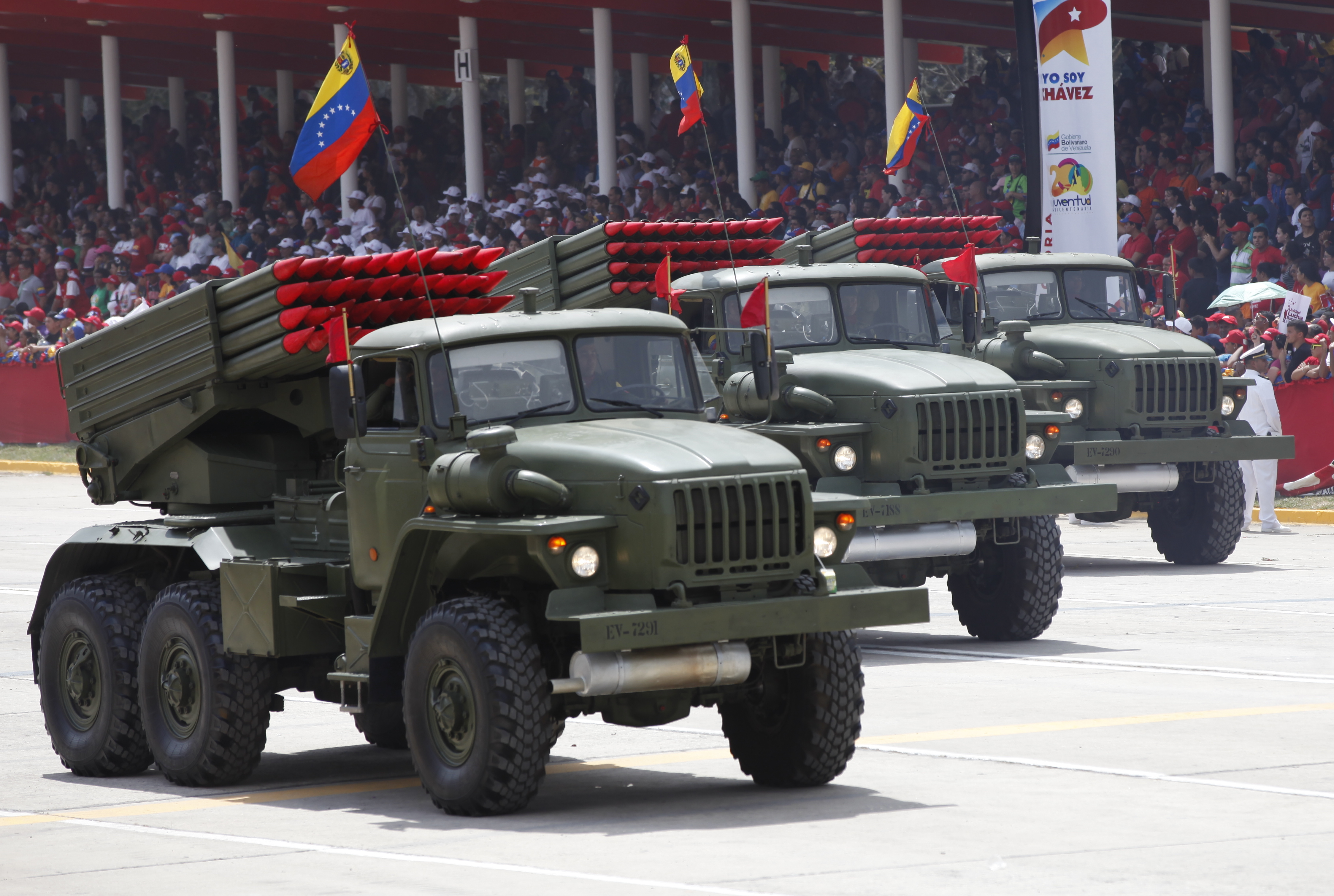 BM-21 Grads in Caracas, Venezuela on 5 March 2014 during the commemoration of Hugo Chavez's death.